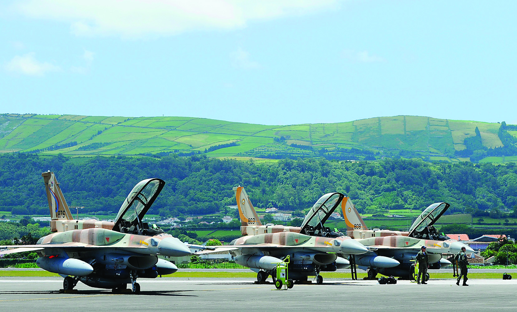 Israeli air force F-16I's sit on the aircraft parking ramp at Lajes Field, Azores, Portugal, on July 9 2009. Several IAF aircraft made a stop here en route to Nellis Air Force Base, Nev., where they will take part in Red Flag exercises.